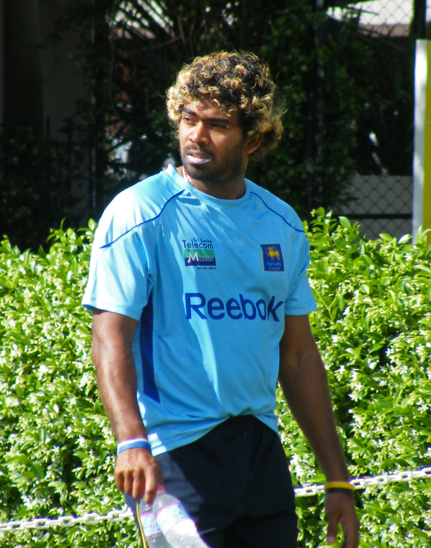 October 2010 at the Sydney Cricket Ground.